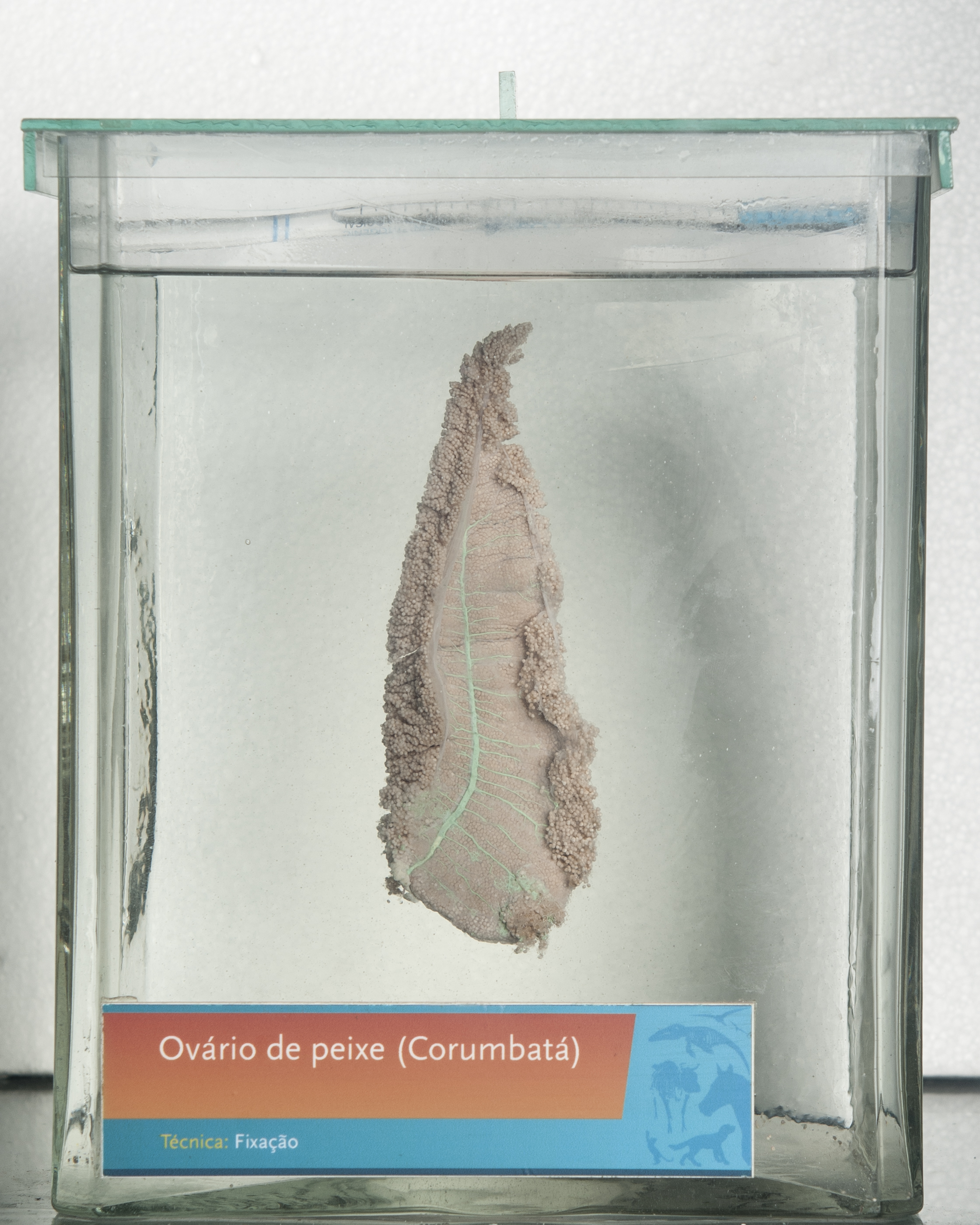 Ovary of Prochilodus lineatus (streaked prochilod). Technique of latex injection and formalin fixation on display at the Museum of Veterinary Anatomy, FMVZ USP. This file was published as the result of a partnership between the Museum of Veterinary Anatomy FMVZ USP, the RIDC NeuroMat and the Wikimedia Community User Group Brasil. This GLAM project is reported.